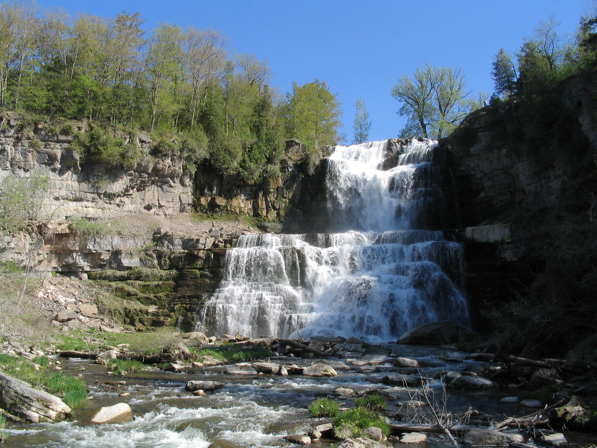 Picture I took upon visiting Chittenango Falls in New York State.